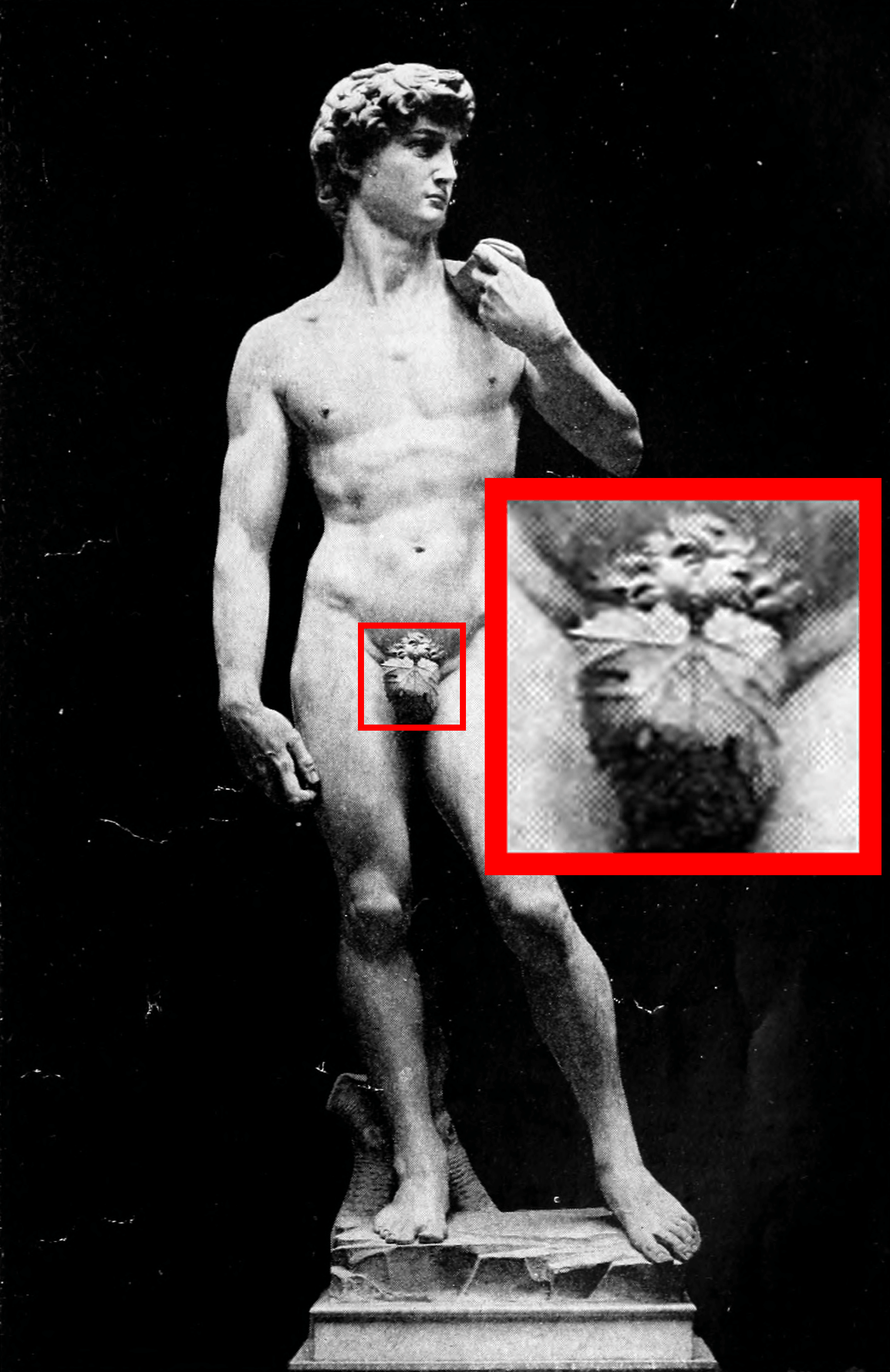 Illustrations from The Life of Michael Angelo by Romain Rolland, translated by Frederic Lees David